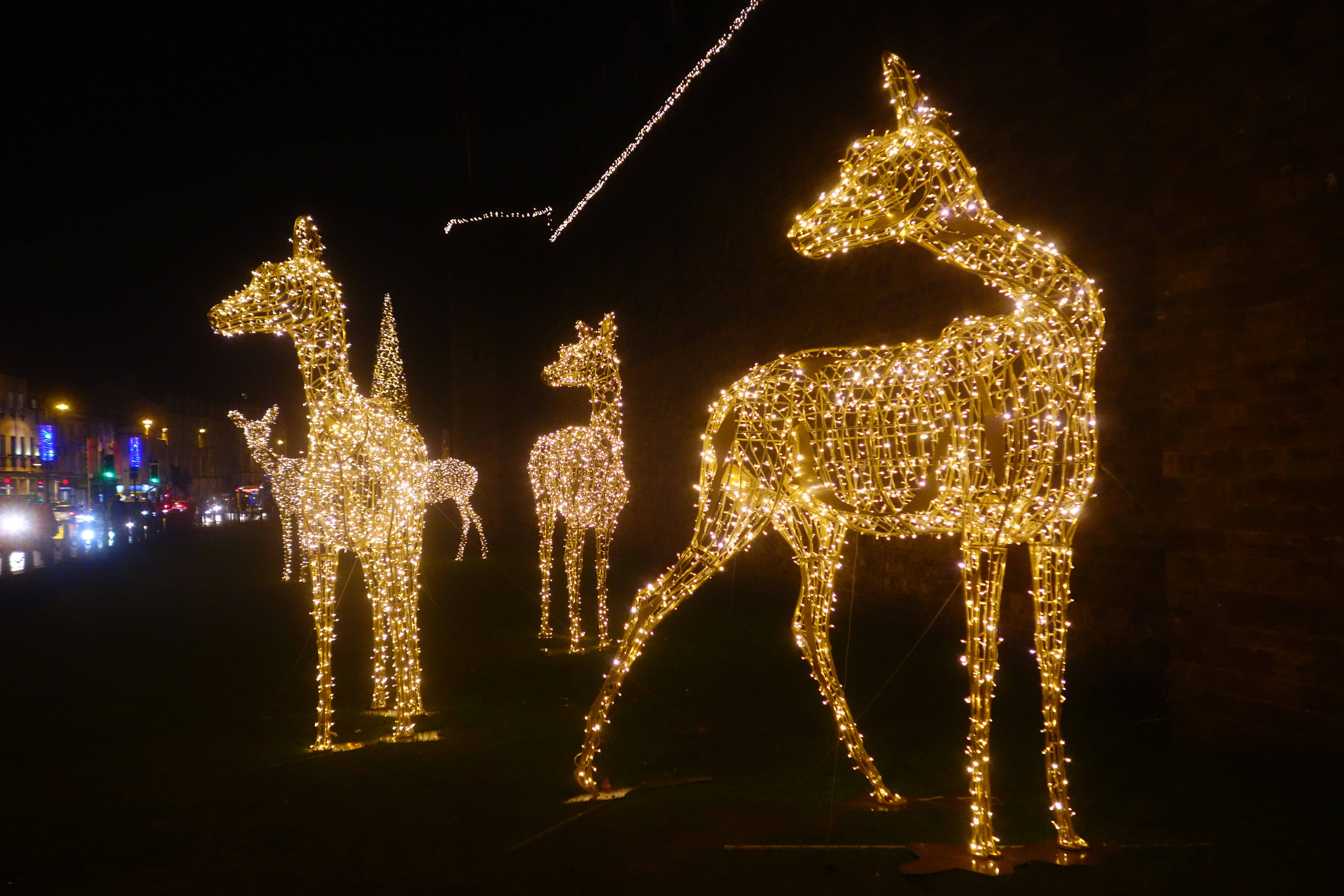 Cardiff Castle Wikidata has entry Q1035742 with data related to this item. Reindeer in the night outside Cardiff Castle, with Christmas lights lining the top of the walls.